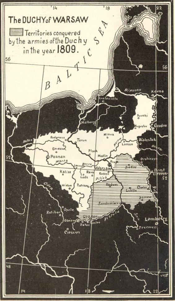 The duchy of Warsaw, Territories conquered by the armies of the Duchy in the year 1809. - This is an illustration from Lewinski-Corwin and published in 1917.